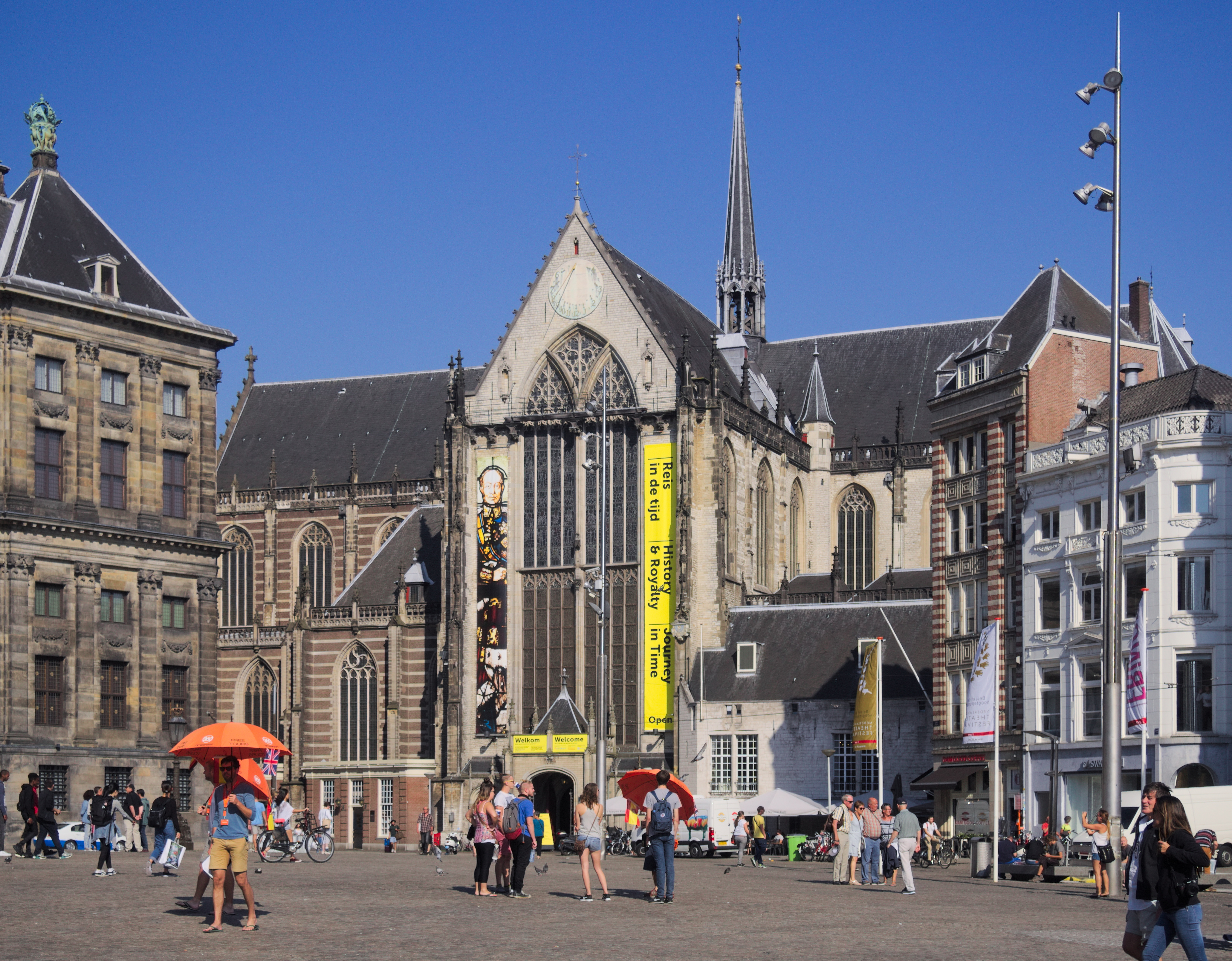 View of Nieuwe Kerk from the Dam square, Amsterdam.